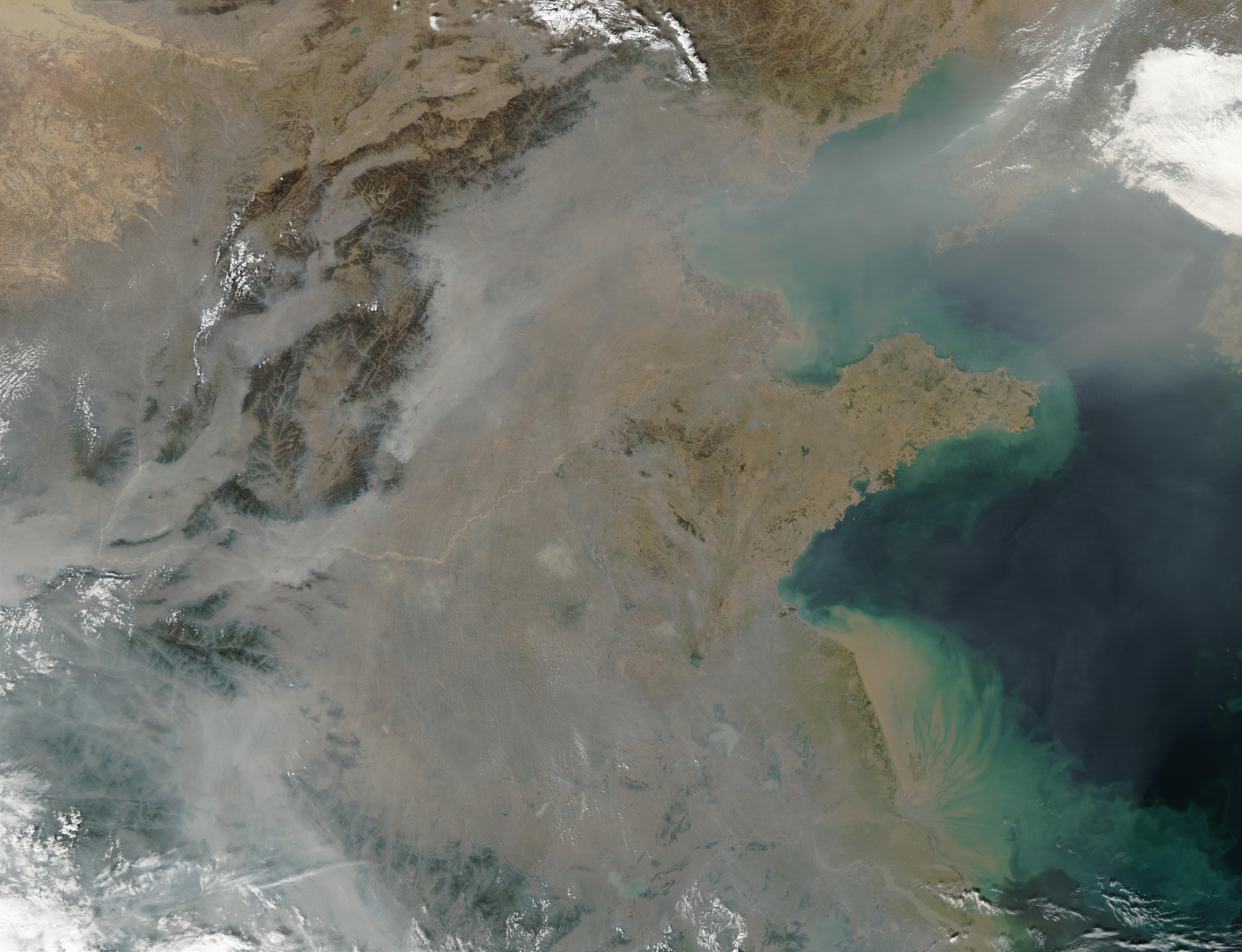 This true-color image over eastern China was acquired by the Moderate Resolution Imaging Spectroradiometer (MODIS), flying aboard NASA’s Aqua satellite, on Oct. 16, 2002 [1]. The scene reveals dozens of fires burning on the surface (red dots) and a thick pall of smoke and haze (greyish pixels) filling the skies overhead. Notice in the high-resolution version of this image how the smog fills the valleys and courses around the contours of the terrain in China’s hilly and mountainous regions. The terrain higher in elevation is less obscured by the smog than the lower lying plains and valleys in the surrounding countryside. This scene spans roughly from Beijing (near top center) to the Yangtze River, the mouth of which can be seen toward the bottom right. Toward the upper right corner, the Bo Hai Bay is rather obscured by the plume of pollution blowing eastward toward Korea and the Pacific Ocean. Toward the bottom right, the Yangtze River is depositing its brownish, sediment-laden waters into the Yellow Sea.